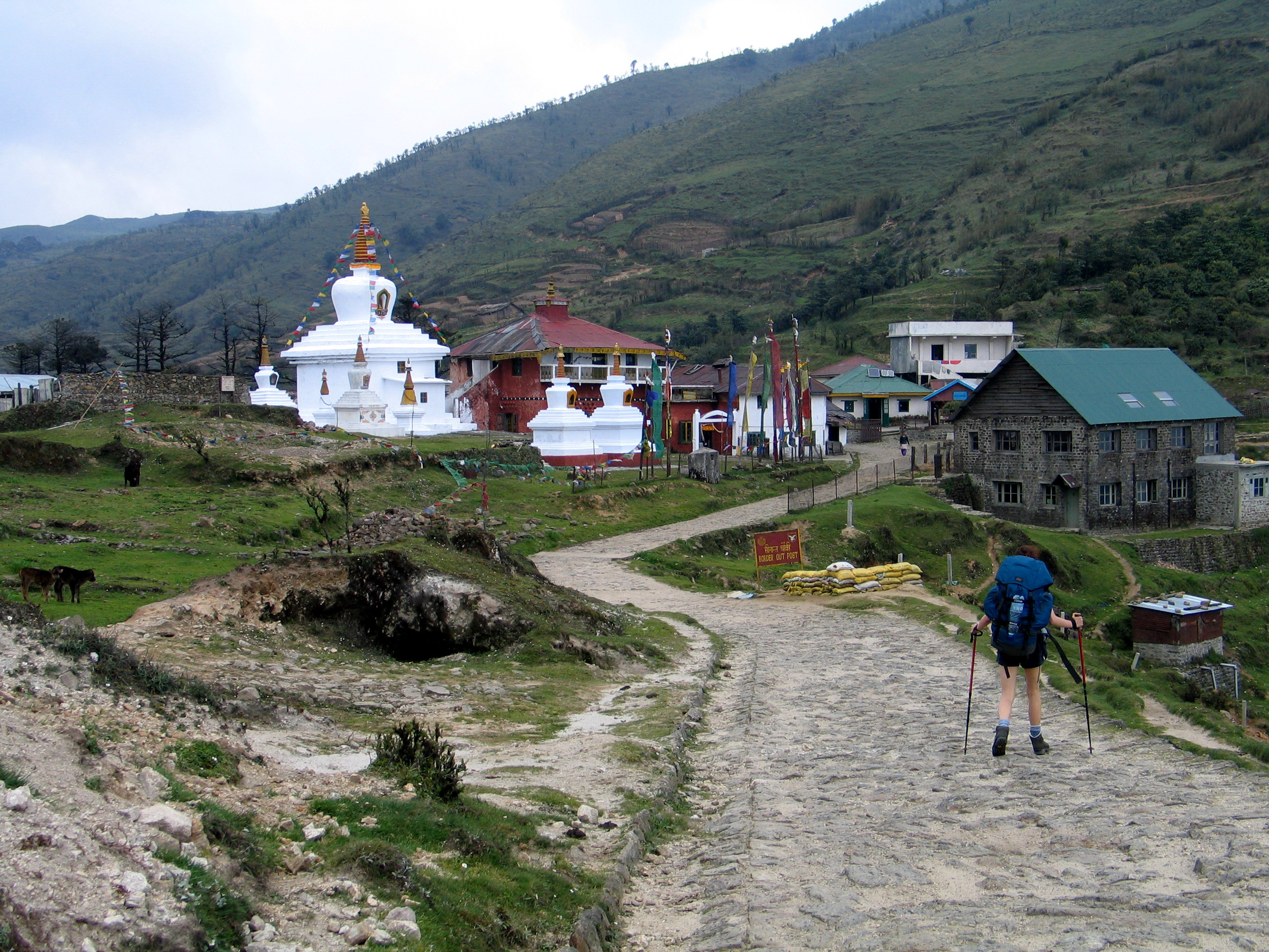 Meghma village on Singalila National park near Darjeeling. Building on the left is tea factory.